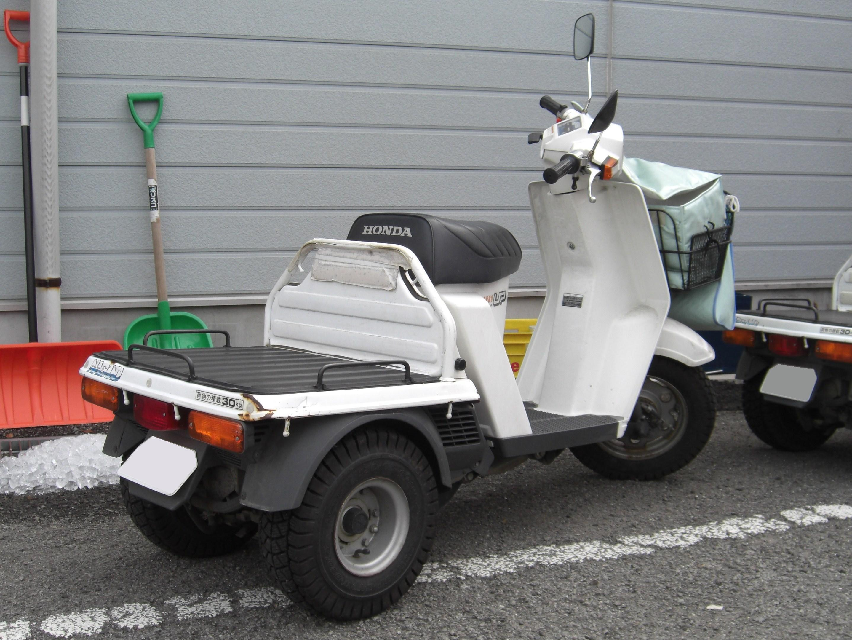 Honda Gyro